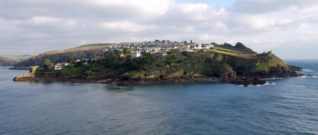 Polruan viewed from St Catherines Castle Fowey.